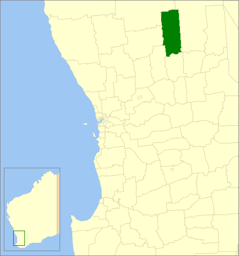 Description=Location of the Local Government Area in Western Australia